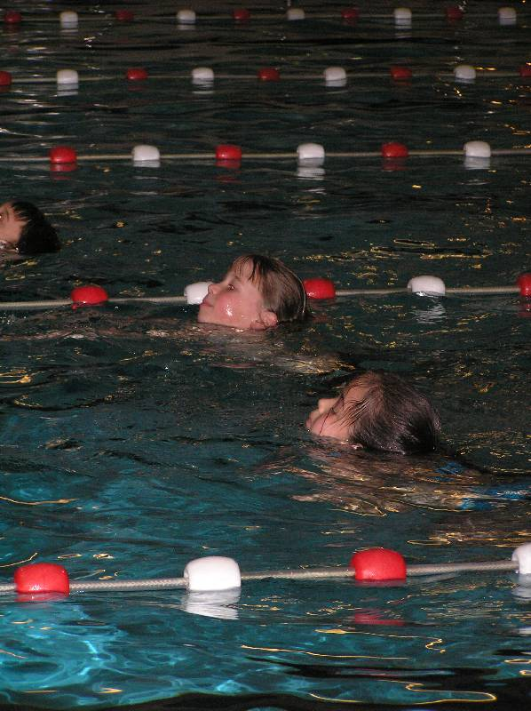 Swimming proof children